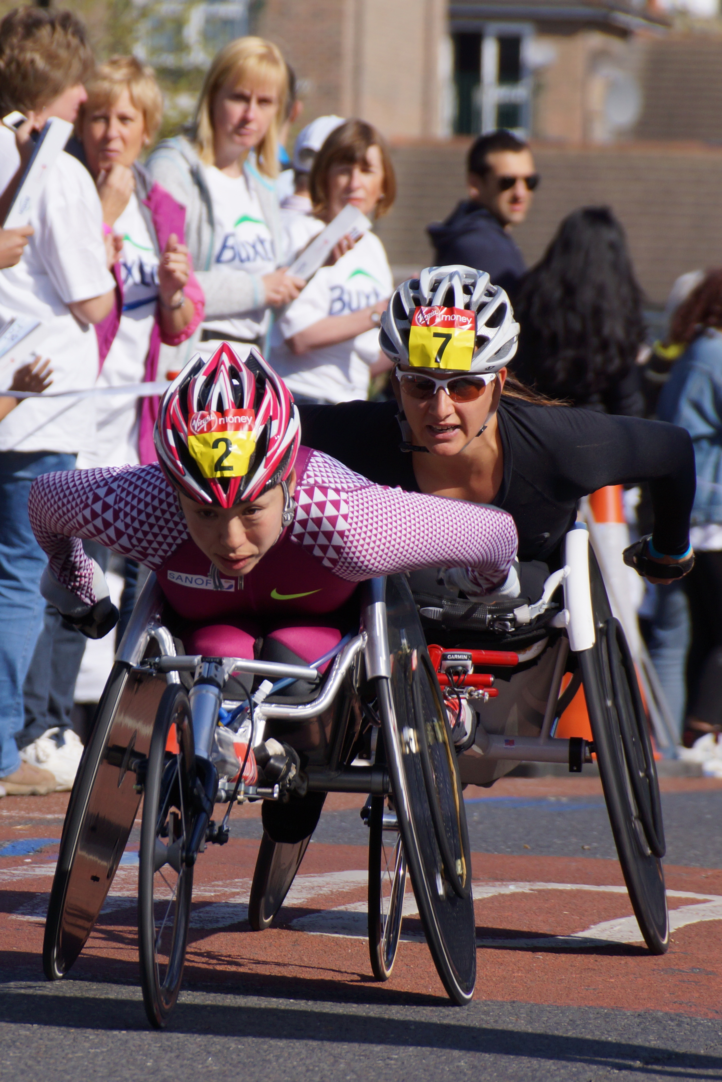 Photograph taken by Julian Mason on 13th April 2014 during the London Marathon. Location Westferry Road on the Isle of Dogs close to Arnhem Place and just before Millwall Outer Dock.